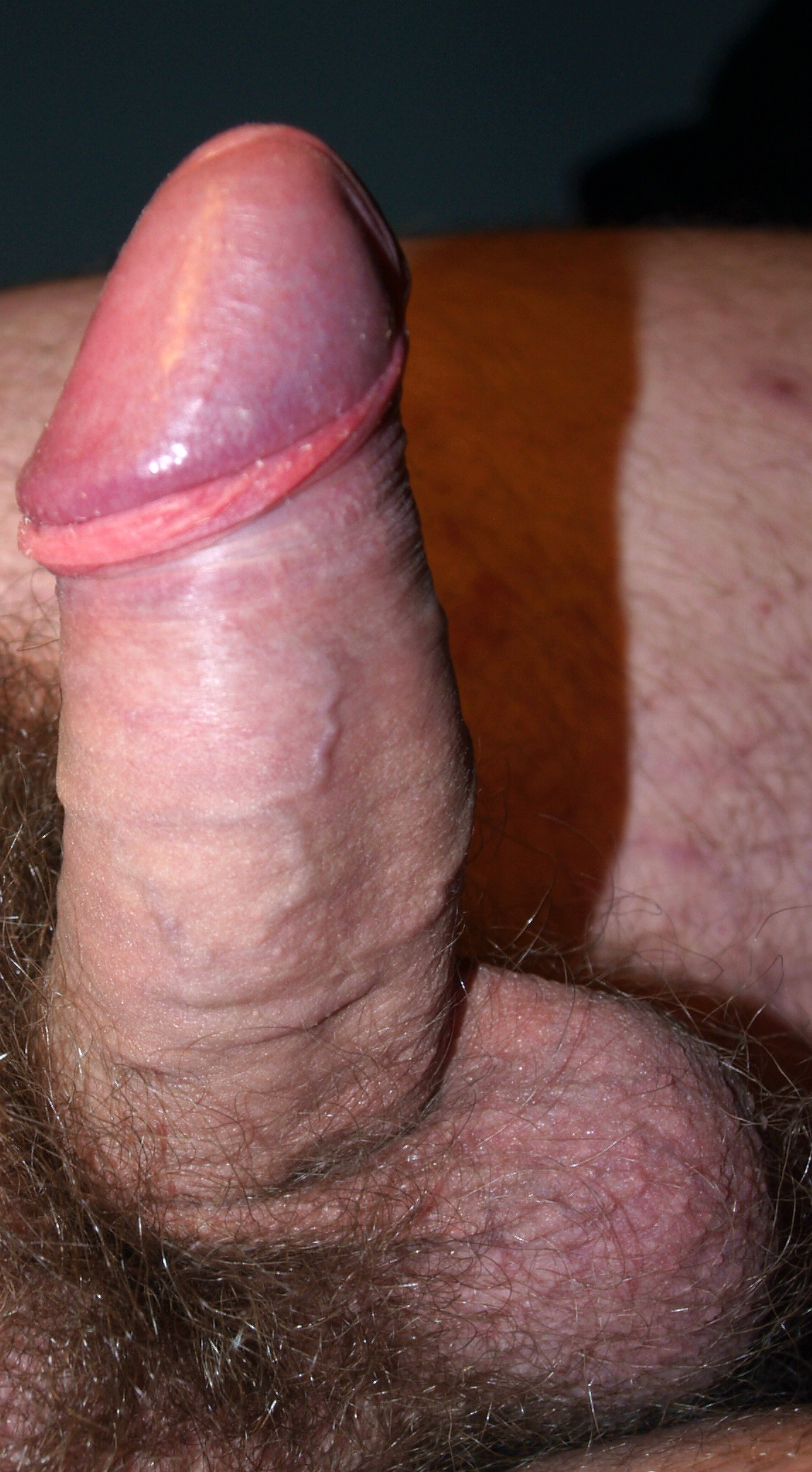 Erected penis